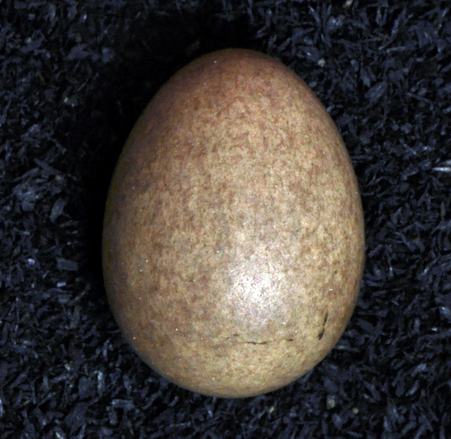 Eurasian rock pipit Anthus petrosus , egg, Coll. Museum Wiesbaden cropped from Commons file File:Anthus petrosus MWNH 1589.JPG